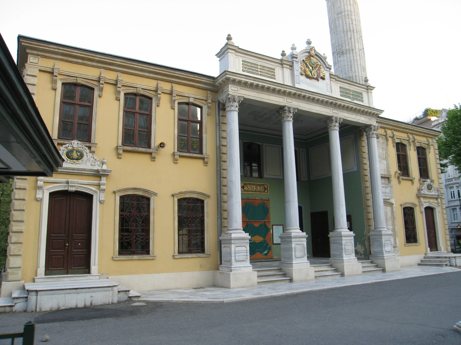 Front façade of the Teşvikiye Mosque in Teşvikiye neighbourhood of Şişli district in Istanbul, Turkey